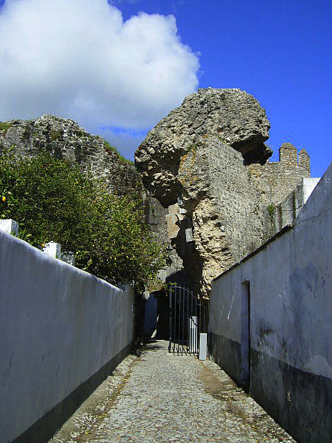 Entrance of Serpa castle, Alentejo, Portugal